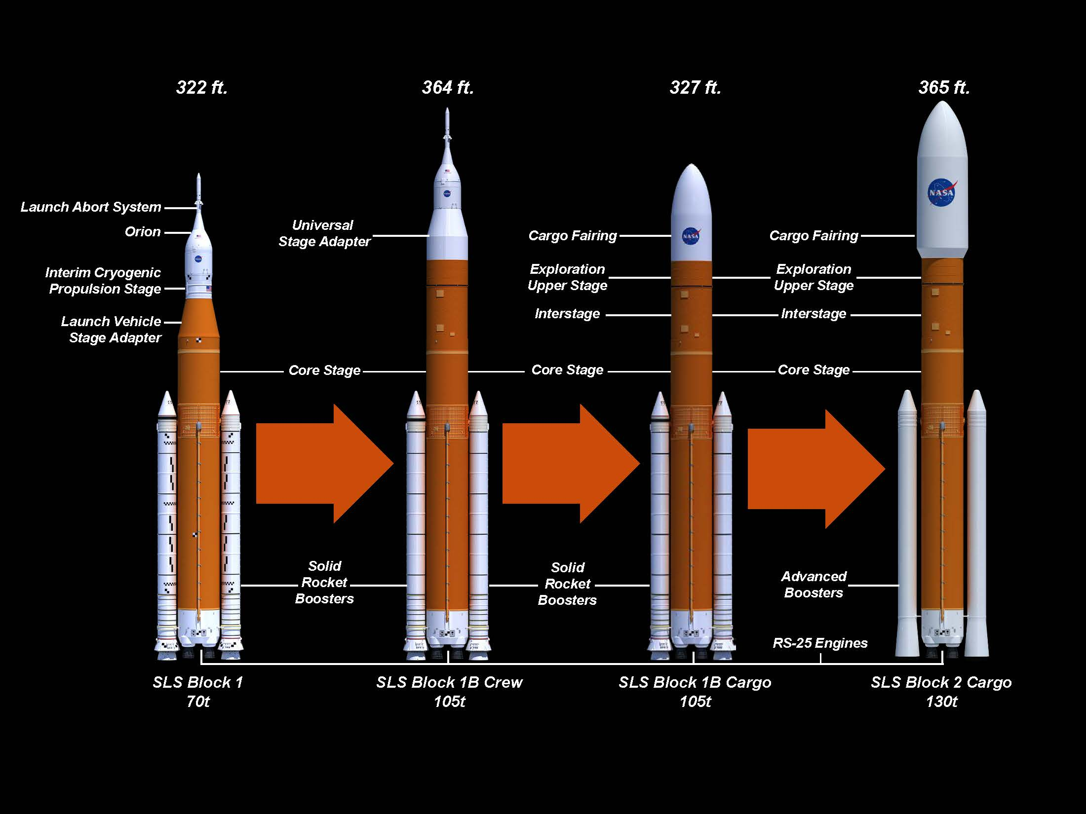 An artist rendering shows NASA’s Space Launch Systems (SLS) evolution from a Block 1 configuration to various configurations capability of supporting different types of crew and cargo missions.